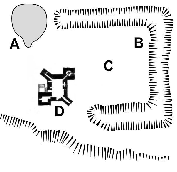 After Taylor (1892), p.281